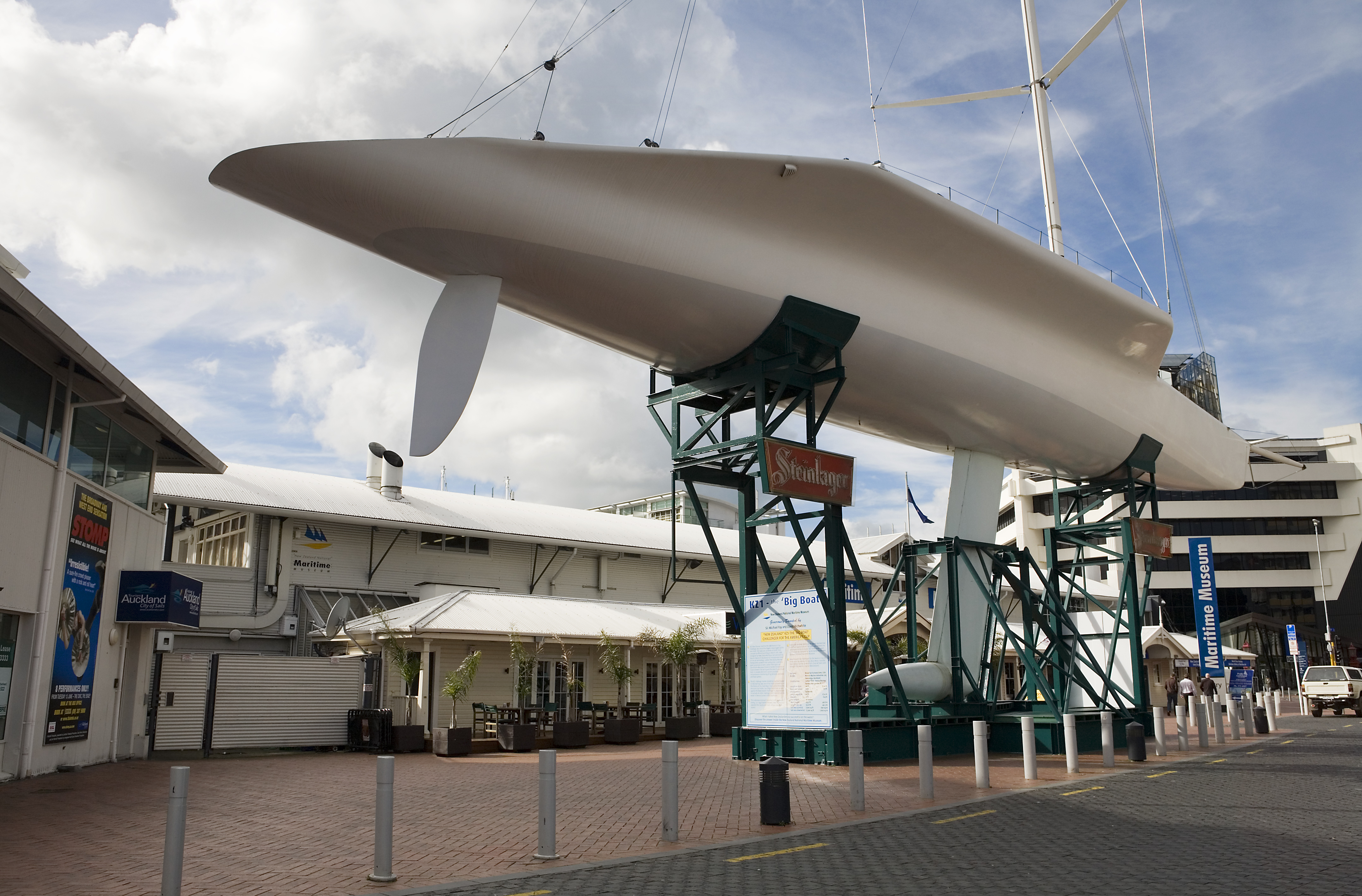 Sir Michael Fay's America's Cup New Zealand KZ1 1988 Big Boat, Auckland, New Zealand